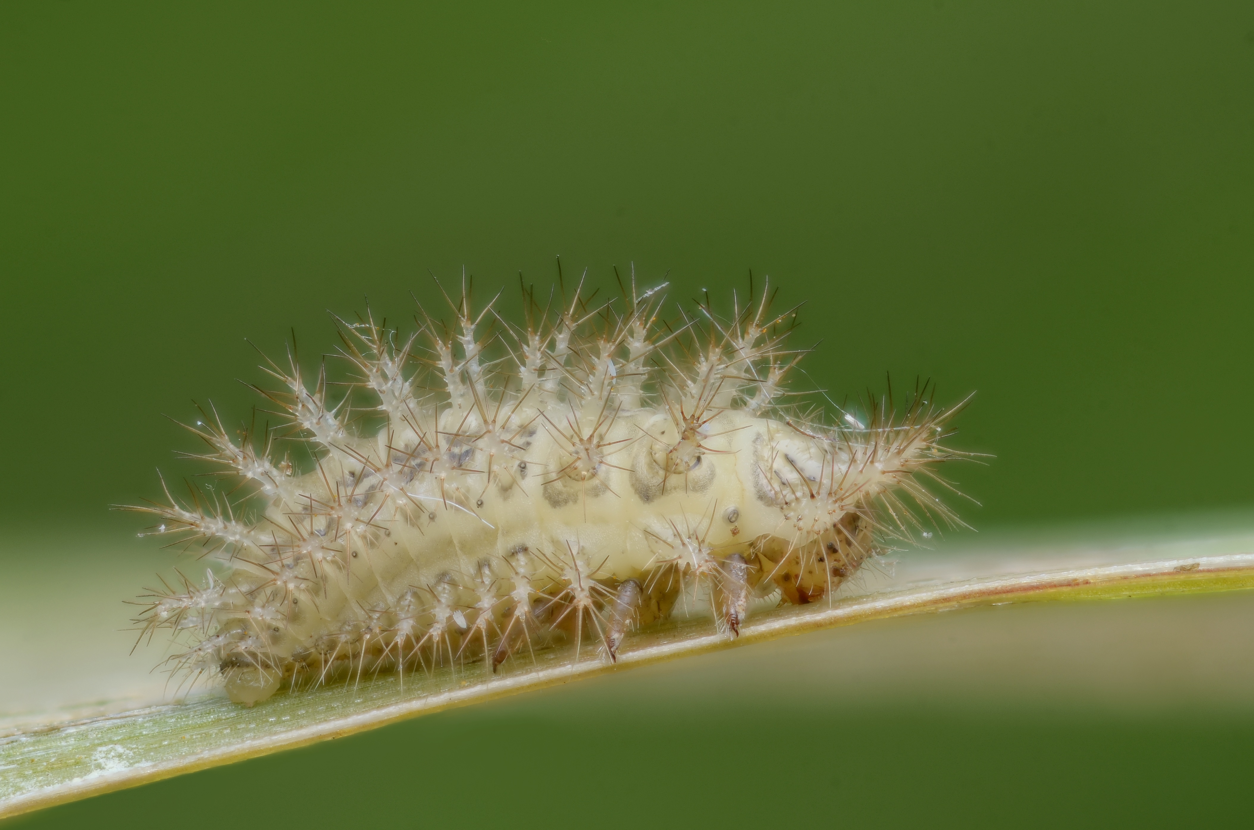 Larvae of the ladybird Cynegetis impunctata on its food : a leaf of Arrhenaterum elatius.